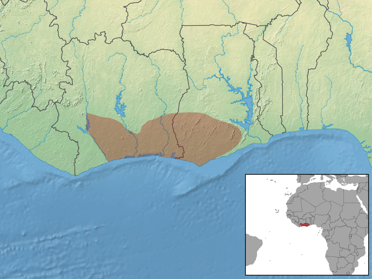 geographic distribution of Cercopithecus diana ssp. roloway, syn. Cercopithecus roloway